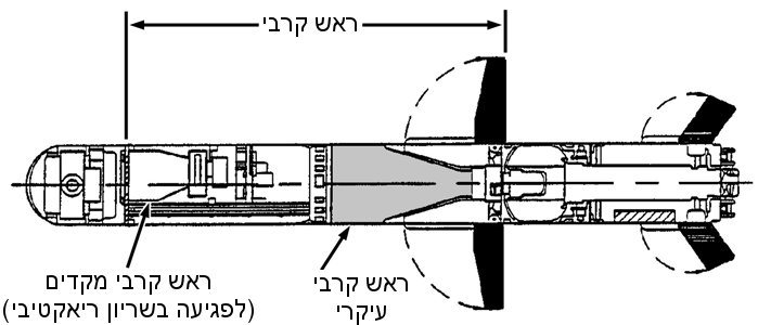 FGM-148 Warhead